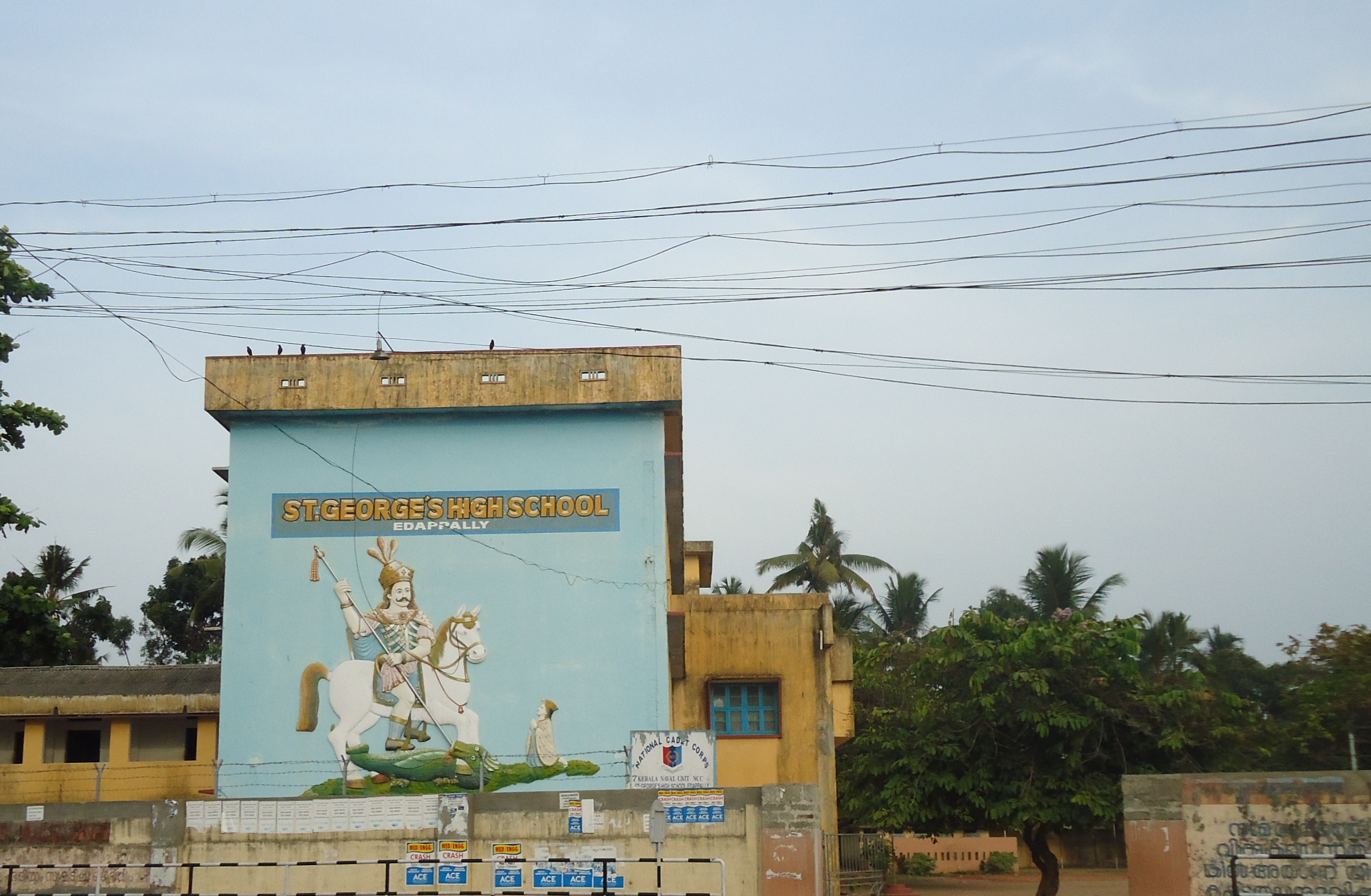 Edappilly St George High School